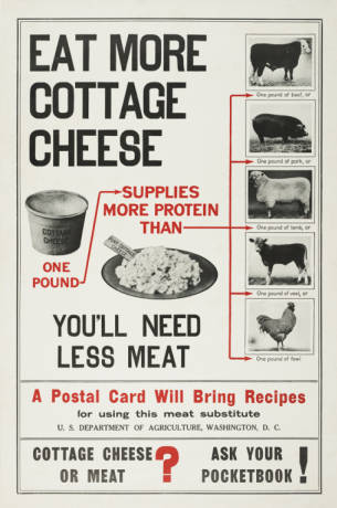 Poster shows black and white photographs of cottage cheese, cows, a pig, a lamb, and a chicken; Title from item.;"One pound supplies more protein than one pound of beef, or one pound of pork, or one pound of lamb, or one pound of veal, or one pound of fowl.";"A postal card will bring recipes for using this meat substitute.";"Cottage cheese or meat? Ask your pocketbook!"